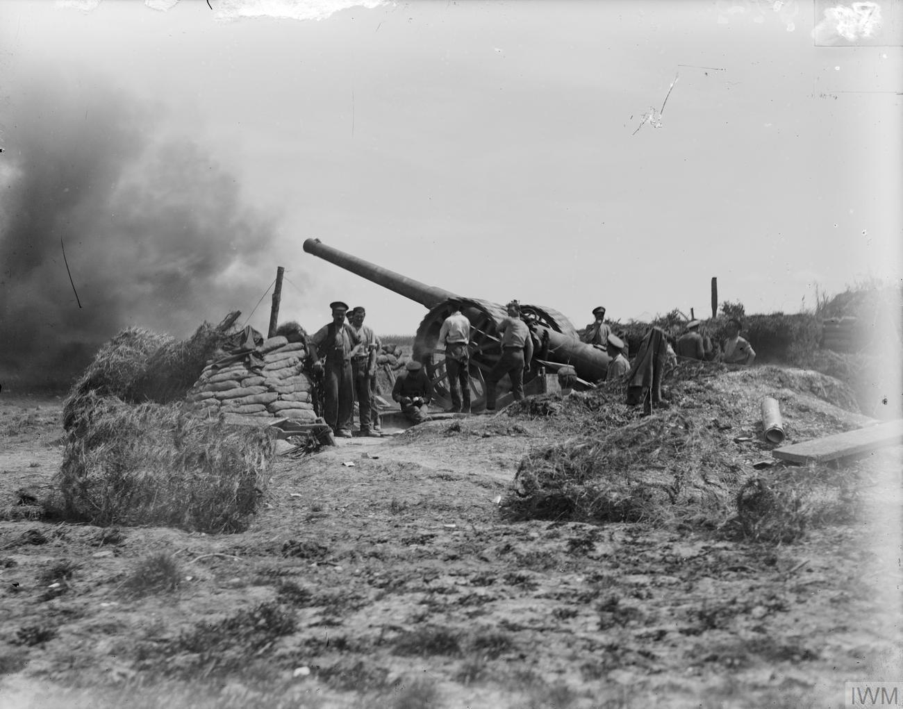 The Battle of the Somme, July-november 1916 Battle of Albert. 6-inch gun firing. July 1916.